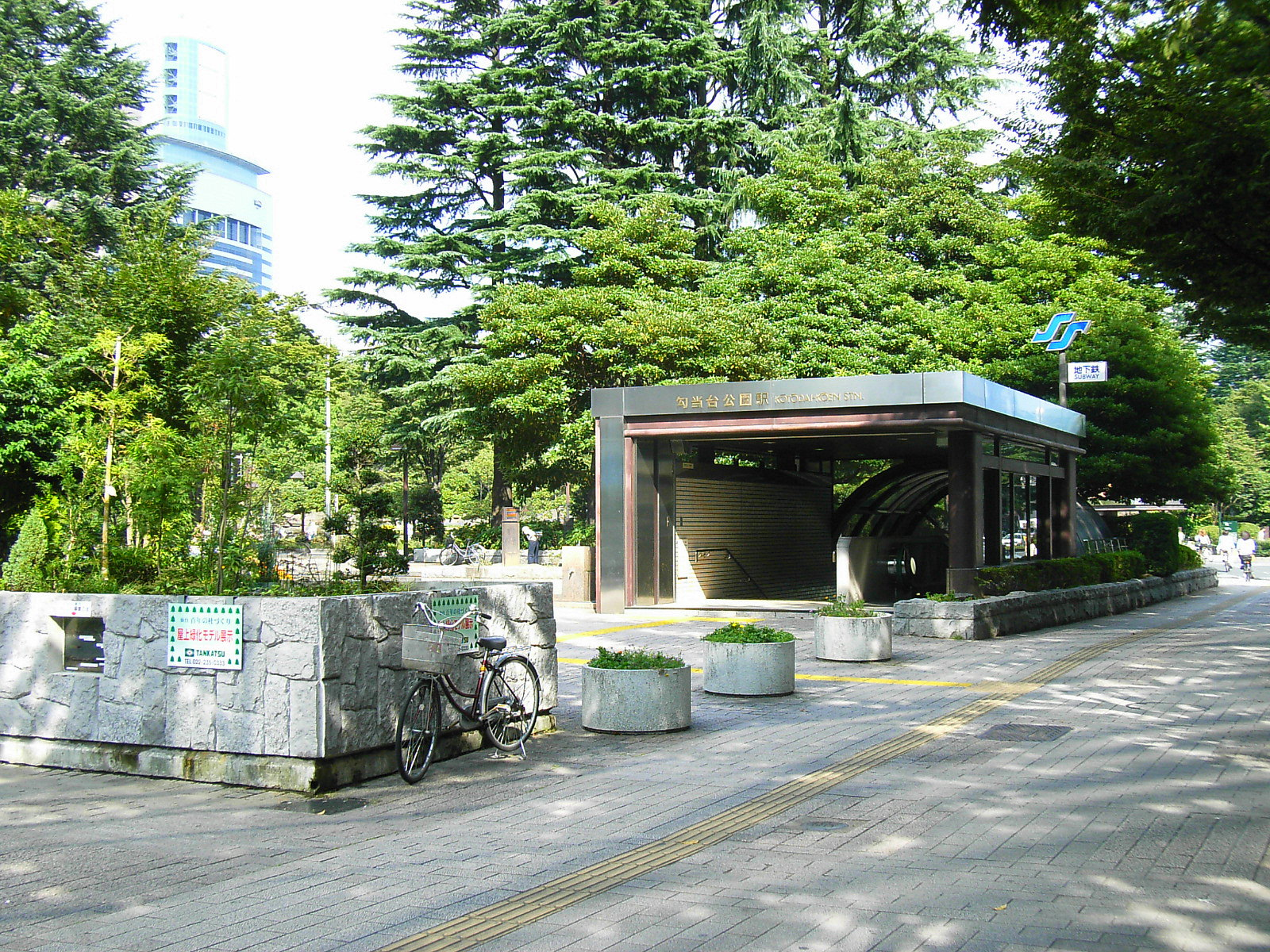 Kōtōdaikōen Station of the Sendai Subway. Sendai, Miyagi prefecture, Japan.